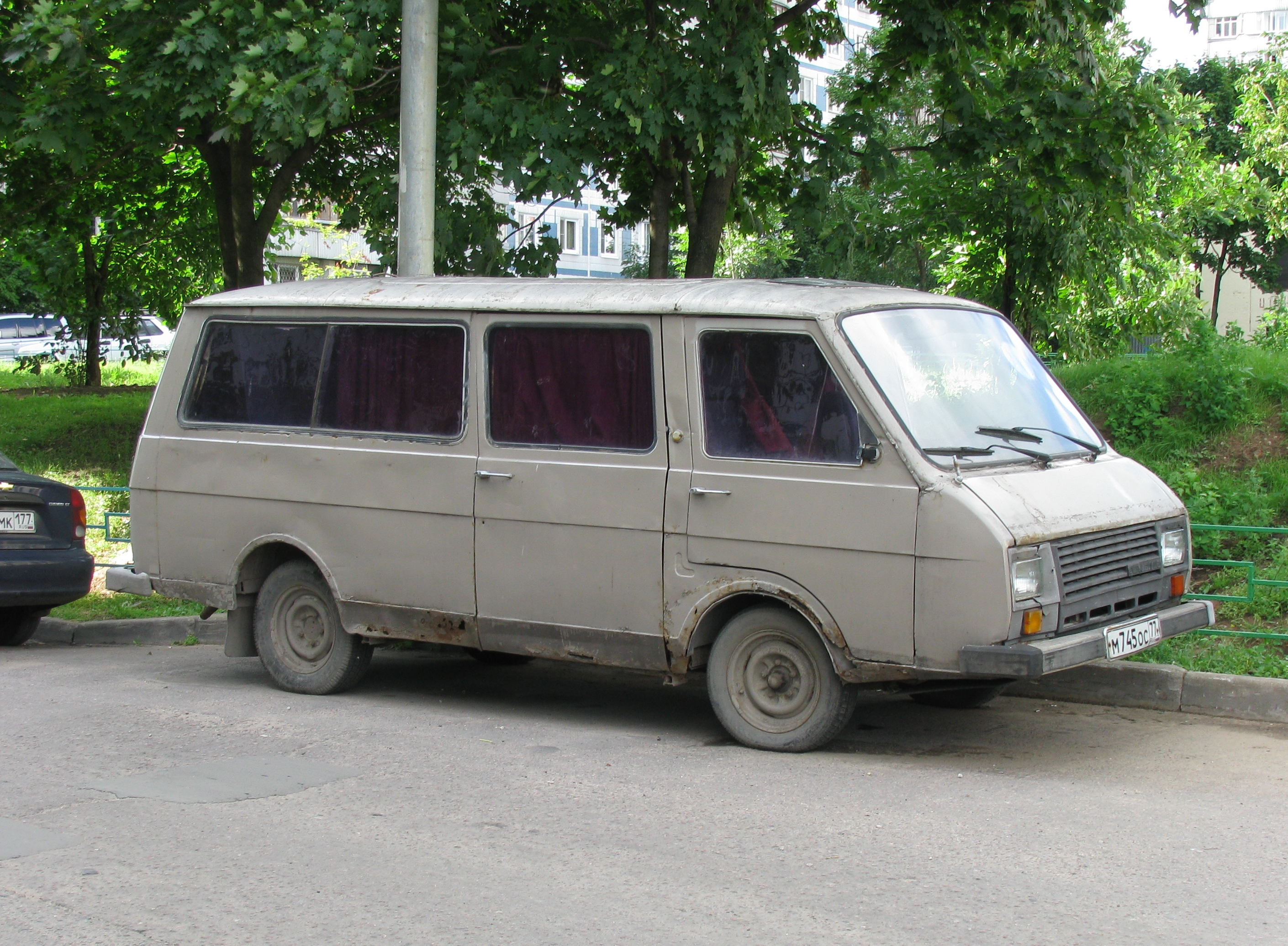 RAF 22038 in Moscow